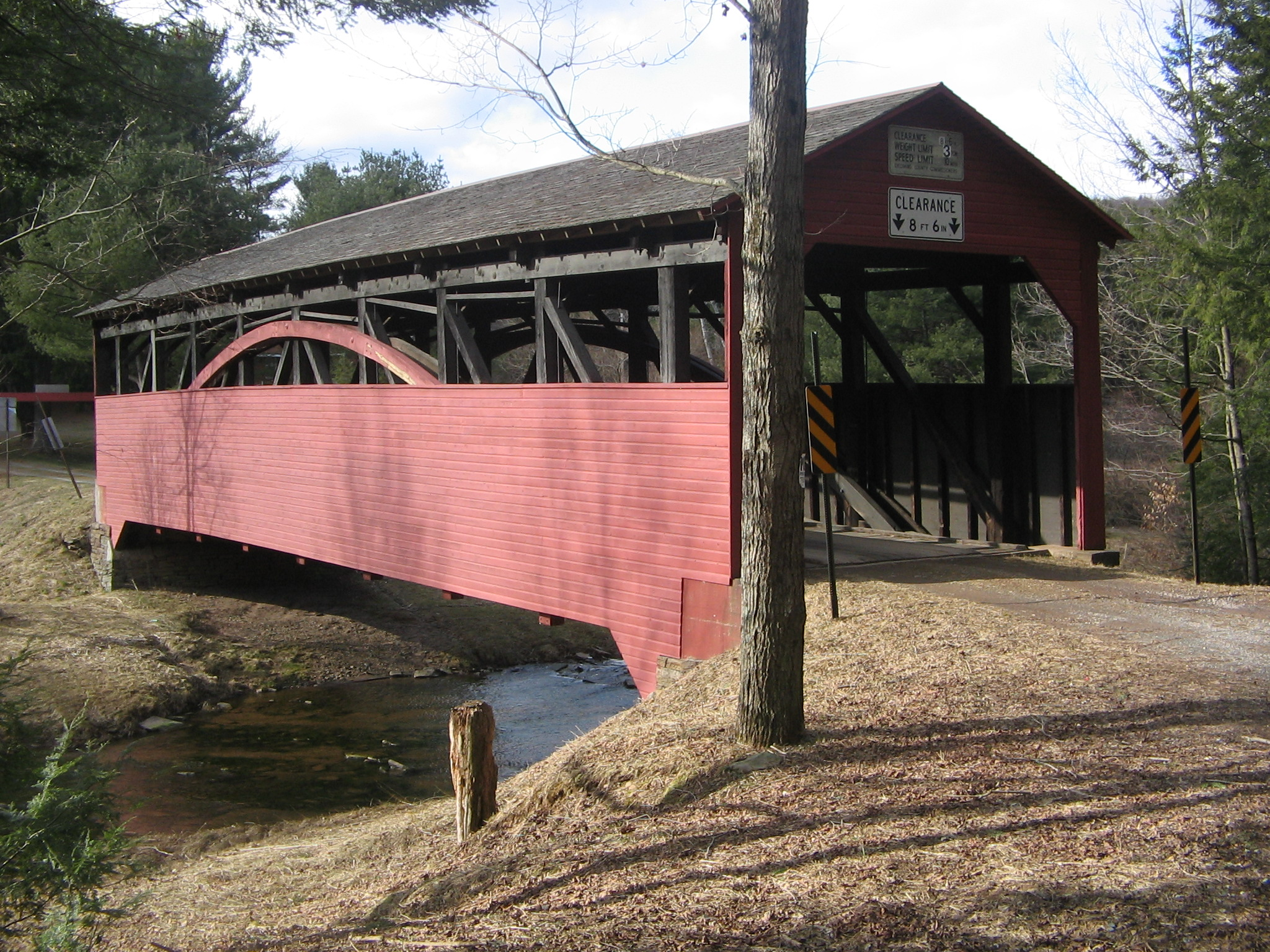 Larrys Creek Covered Bridge (also known as Cogan House Covered Bridge and Buckhorn Covered Bridge) over Larrys Creek in Cogan House Township, Pennsylvania, USA. Bridge built 1877, rehabilitated 1998. On the US National Register of Historic Places. A Burr arch truss bridge.